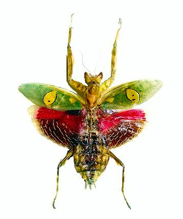 Creobroter gemmatus museum specimen showing colourful wings used in deimatic (startle) display.